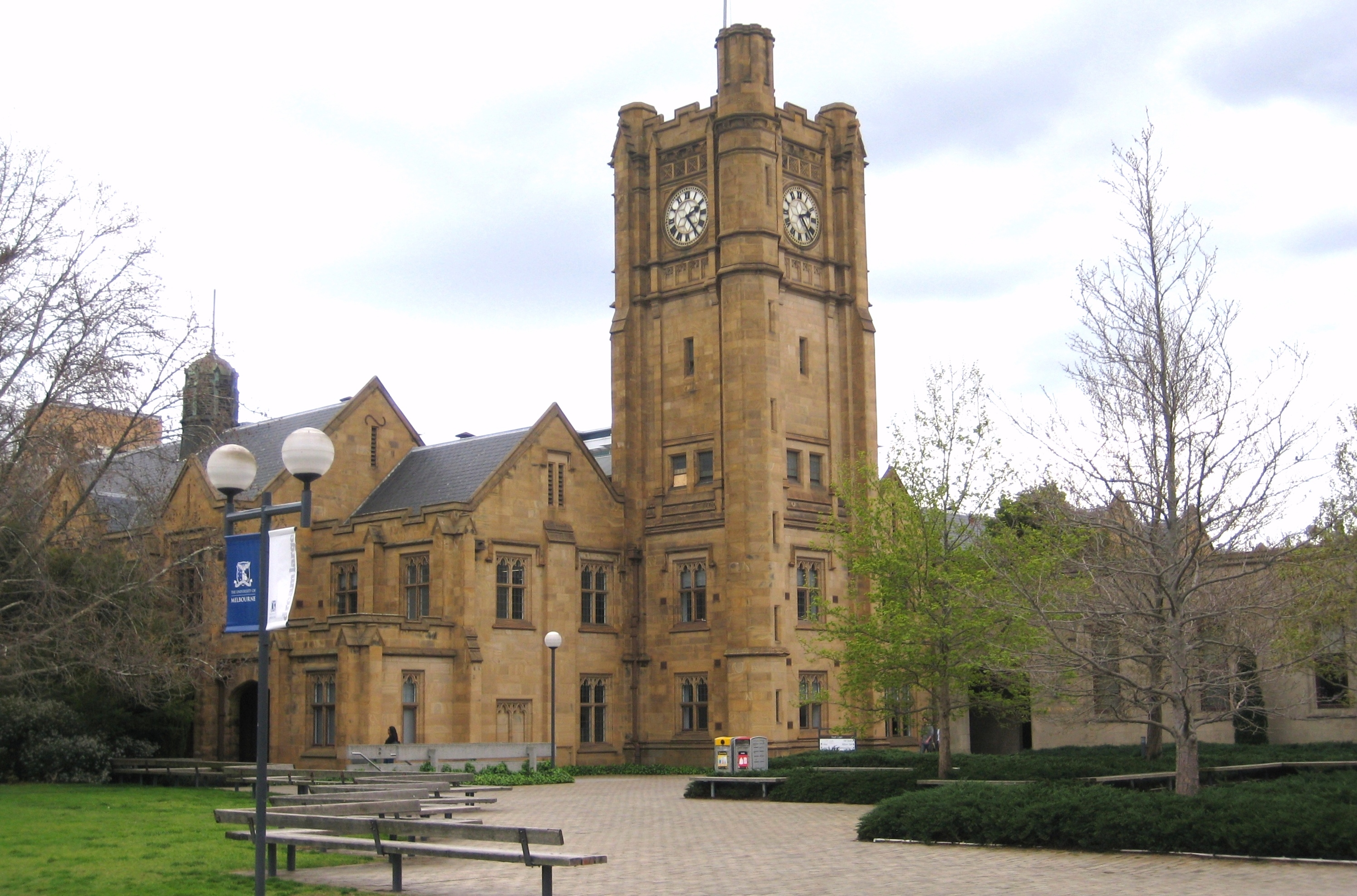 Old Arts Building (1919-1924), Parkville campus, University of Melbourne.